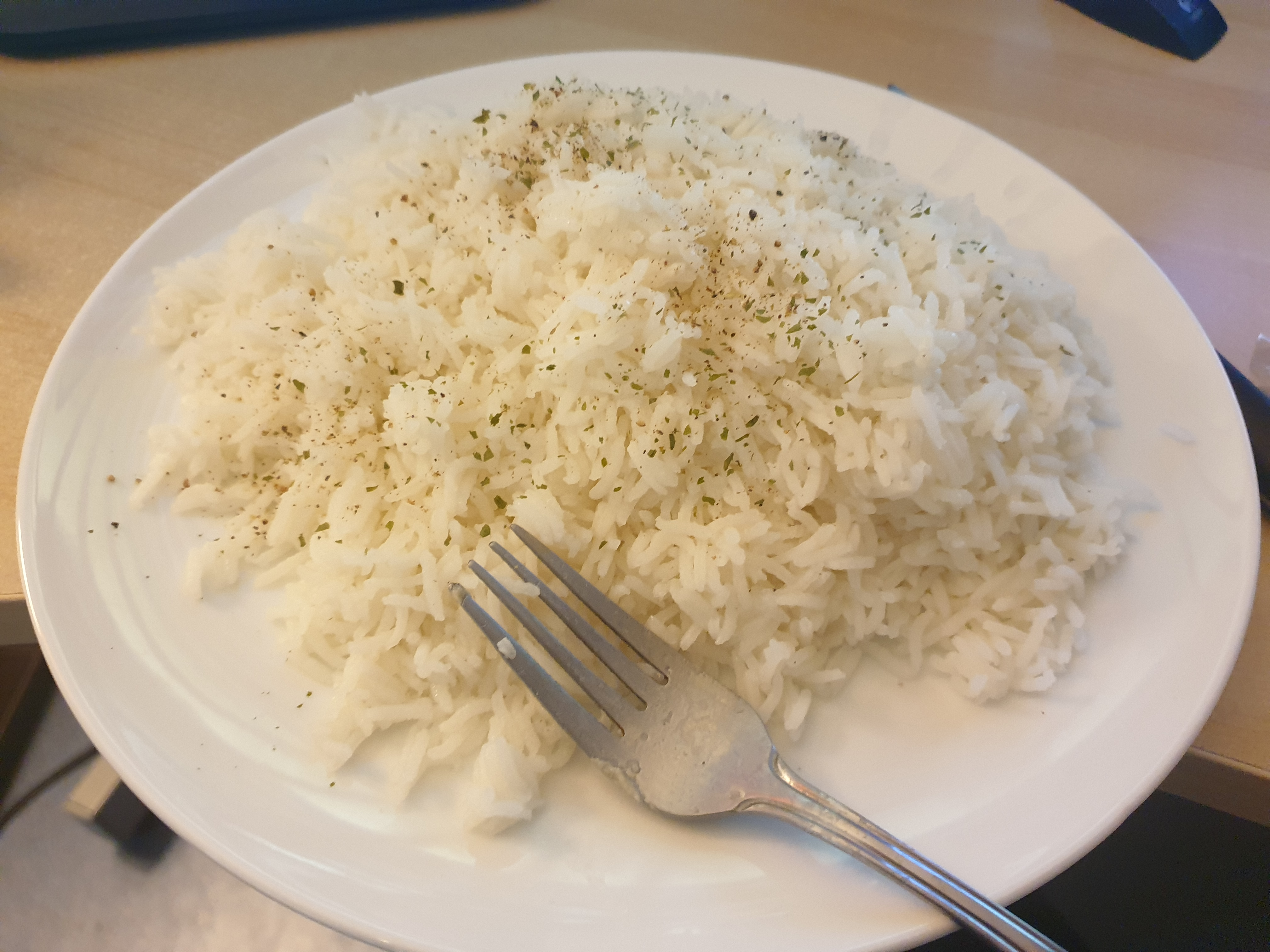 Rice plate for two people - 2020-03-20.